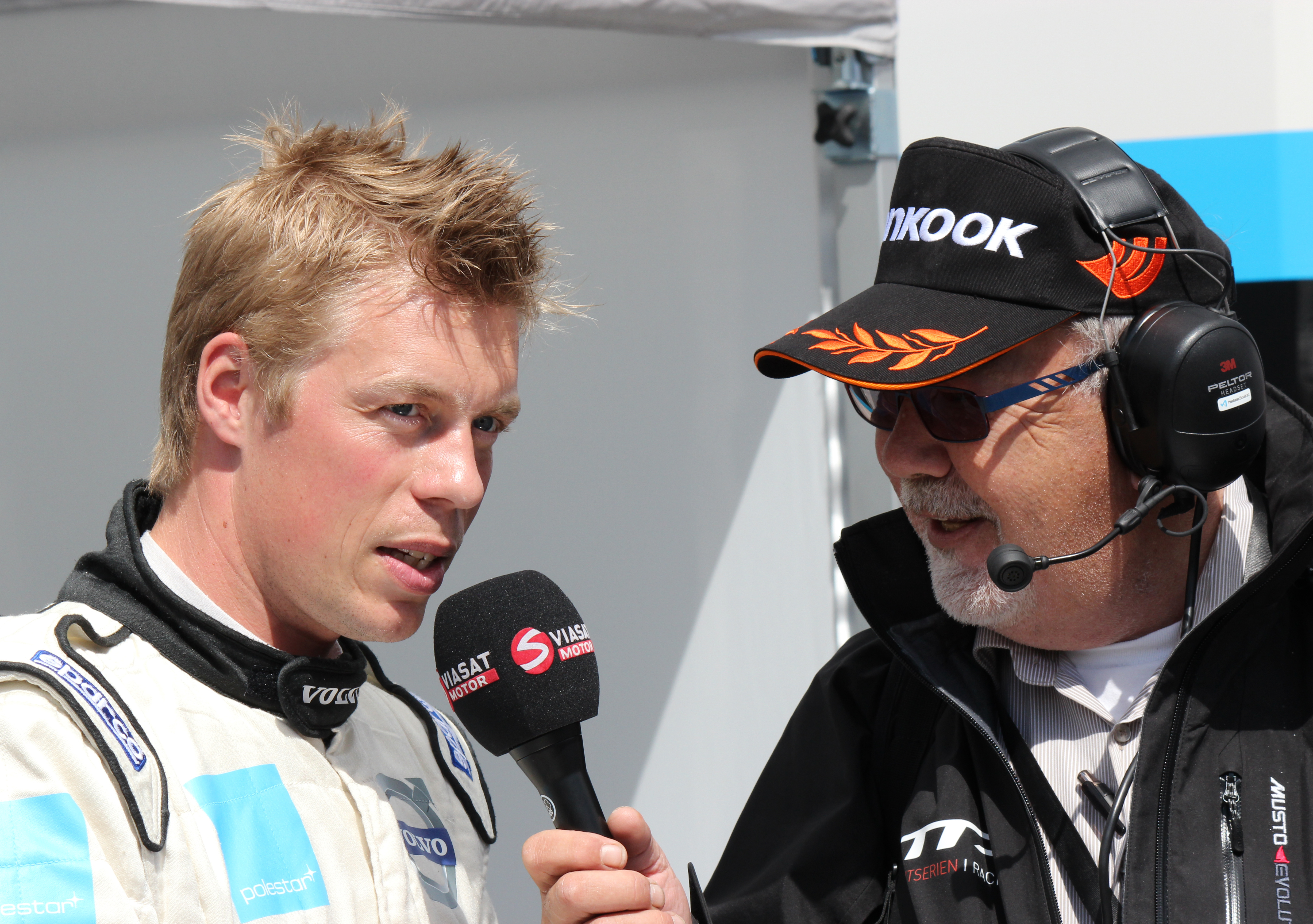 Lars G Nilsson interviews Thed Björk for Viasat Motor at Anderstorp Raceway in 2012.